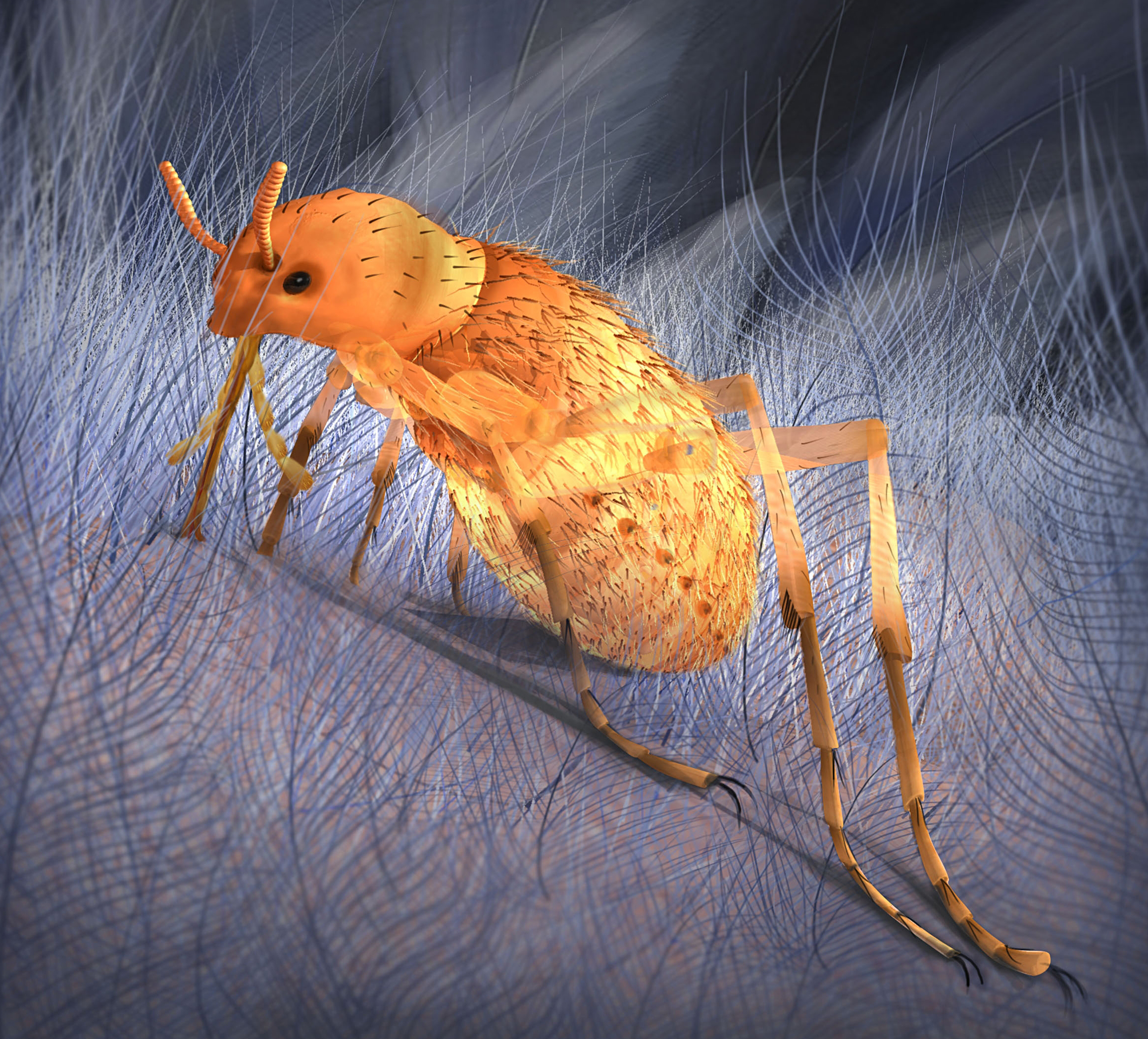 This ancient "flea-like" insect, Pseudopulex jurassicus, lived 165 million years ago. It used a long proboscis to feed on the blood of dinosaurs, with a bite that would have been unusually painful. (Illustration by Wang Cheng, courtesy of Oregon State University)